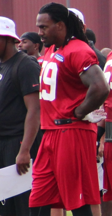 Steven Jackson at Falcons training camp, 2013